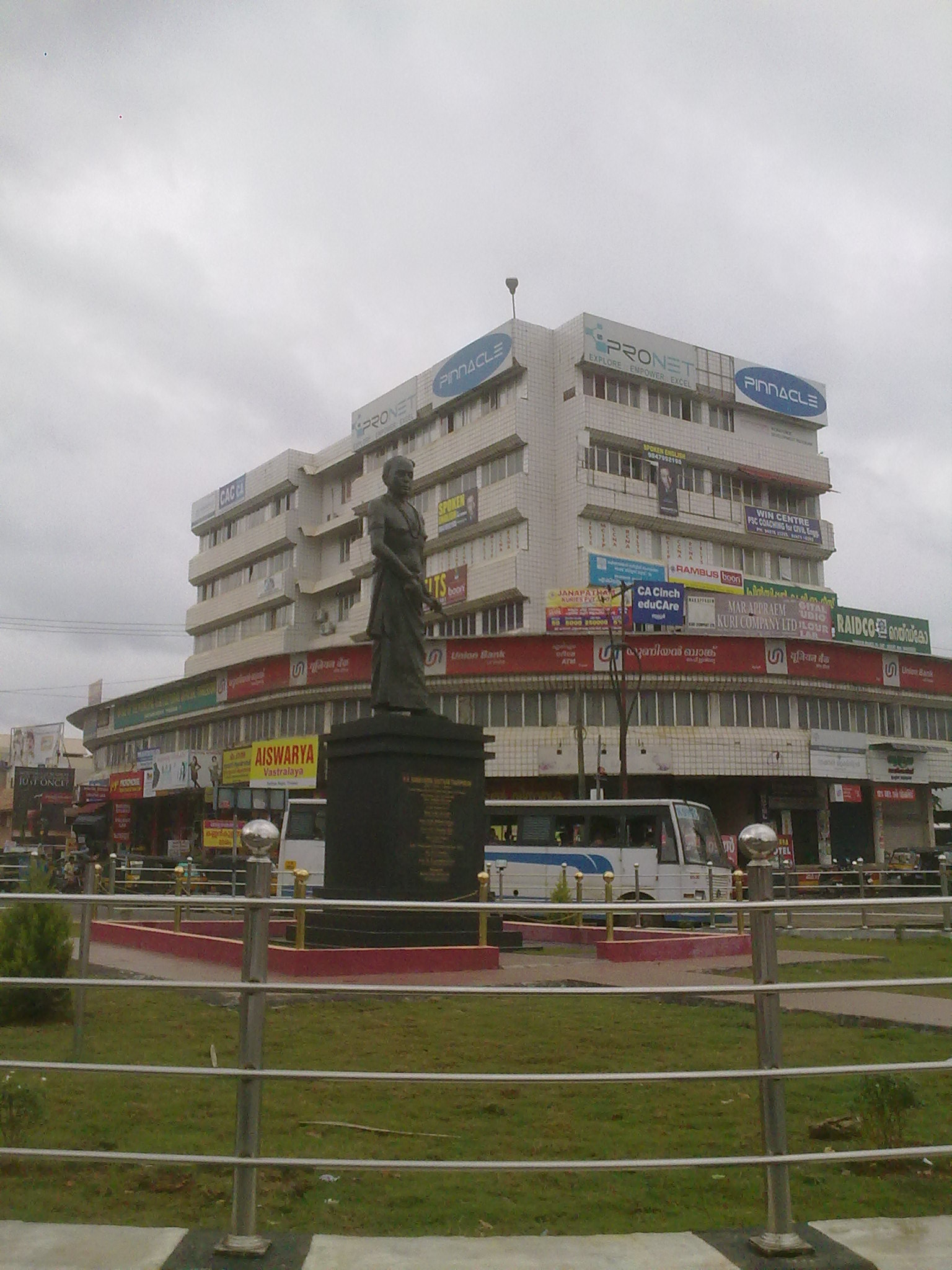 Shakthan Thamparan statue in Shakthan Thamparan Nagar in Thrissur city